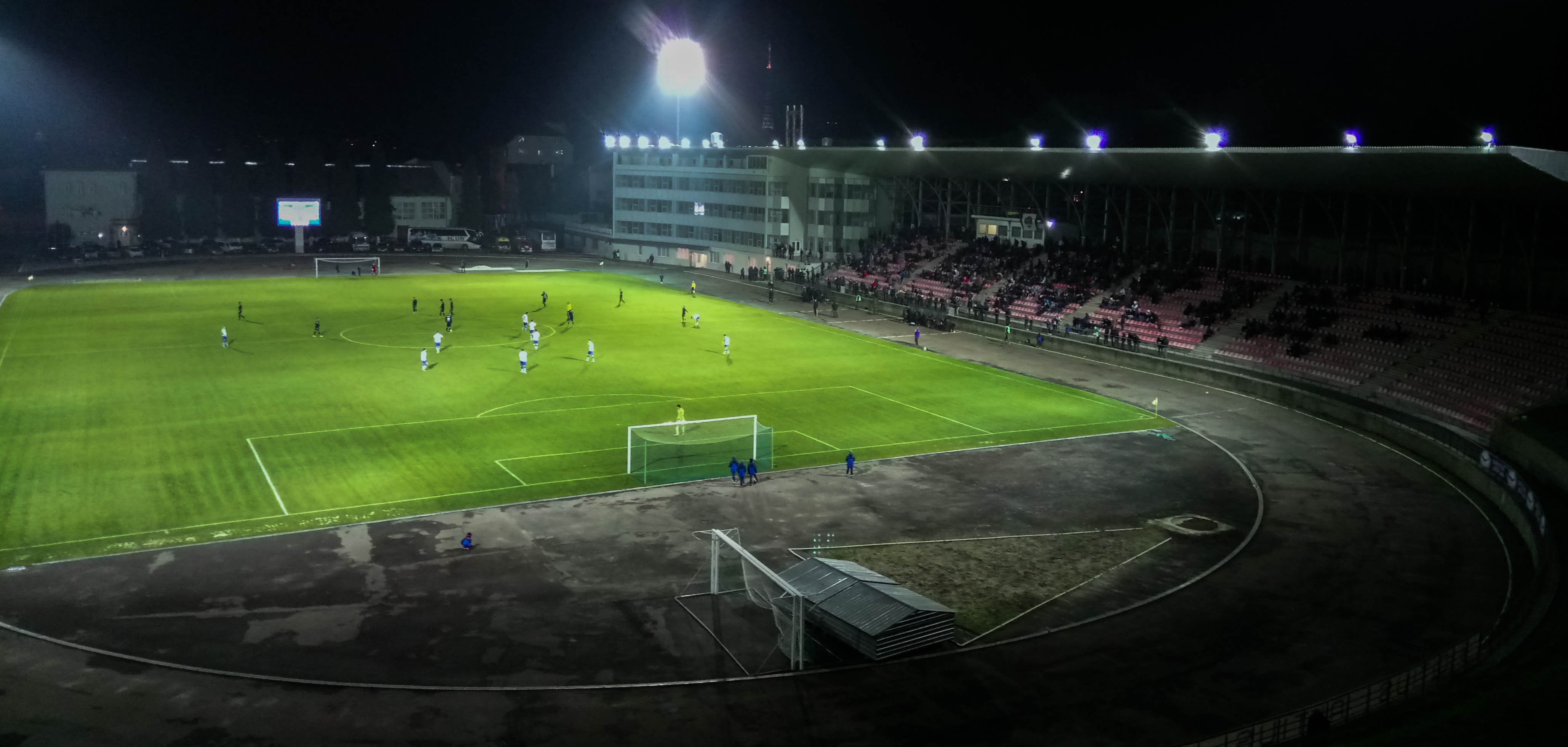 Ukrainian Cup. Skif Stadium, Lviv. October 25, 2017. "Lviv" - "Stal" Kamianske (1:1, 5:3 p.).